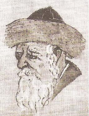 Abraham Jacob Friedman (1820-1883) 1st Rebbe of Sadigura